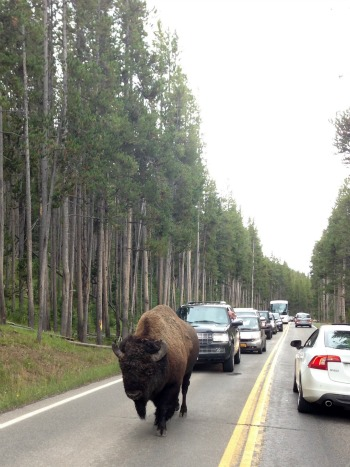 Bison Jam in Yellowstone National Park